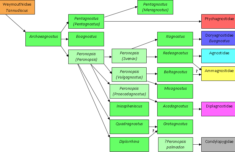 Schematic showing the relationship between the different subgenera of Peronopsis (light green), other Peronopsid genera (darker green), the ancestrial genus Tannudiscus of the eodiscoid family Weymouthiidae (orange), and decending agnostoid family (other colors). Unclear is the position of ?Peronopsis palmadon, a transitional form between the agnostoids and the cyclopygoids. Based on E. B. Naimark (2012). Hundred species of the genus Peronopsis Hawle et Corda, 1847. Paleontological Journal 46(9):945-1057